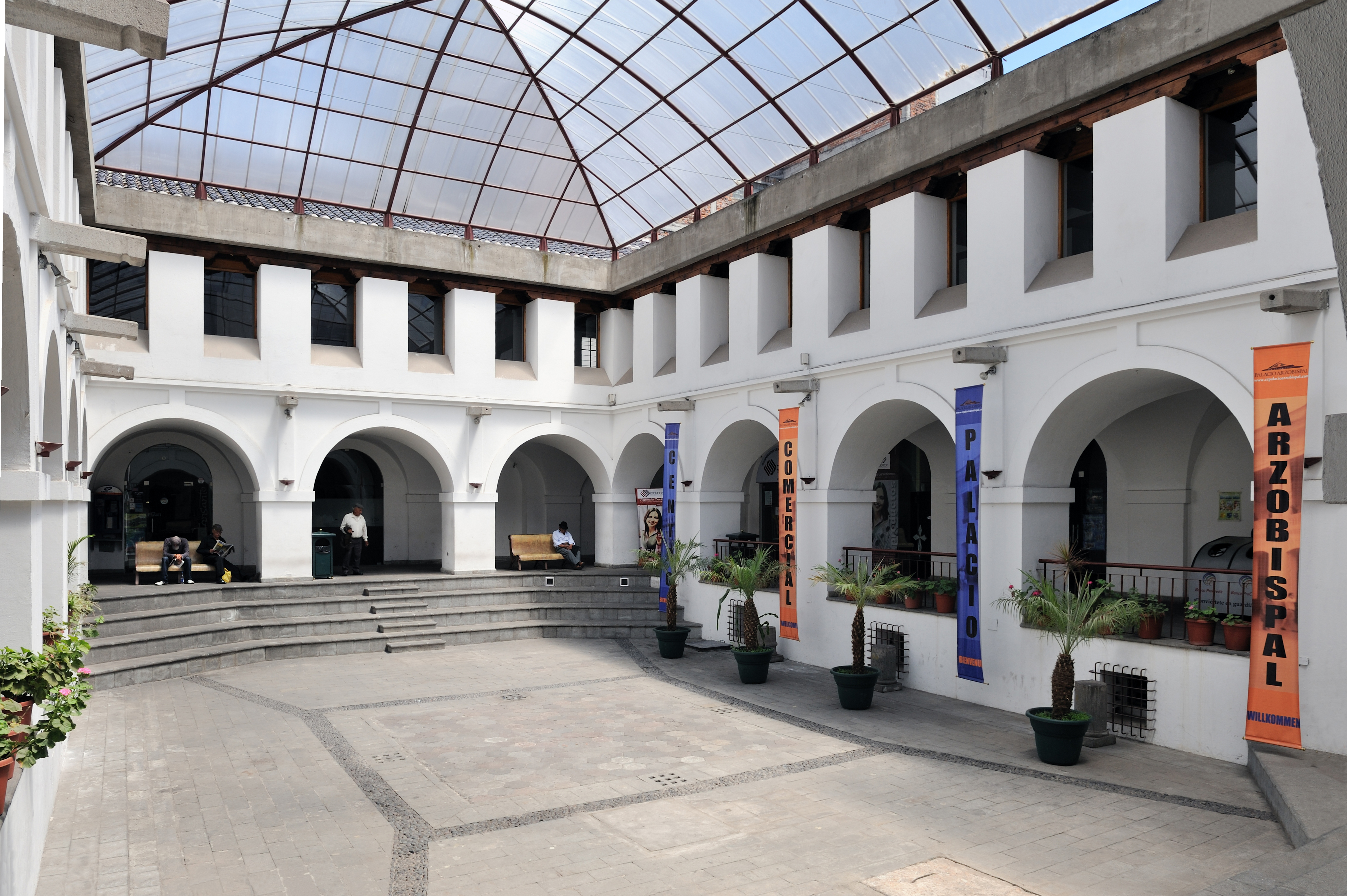 Quito, Historical Centre: patio of the palace of the archbishop. The palace contains a shopping centre with varios restaurants and shops.